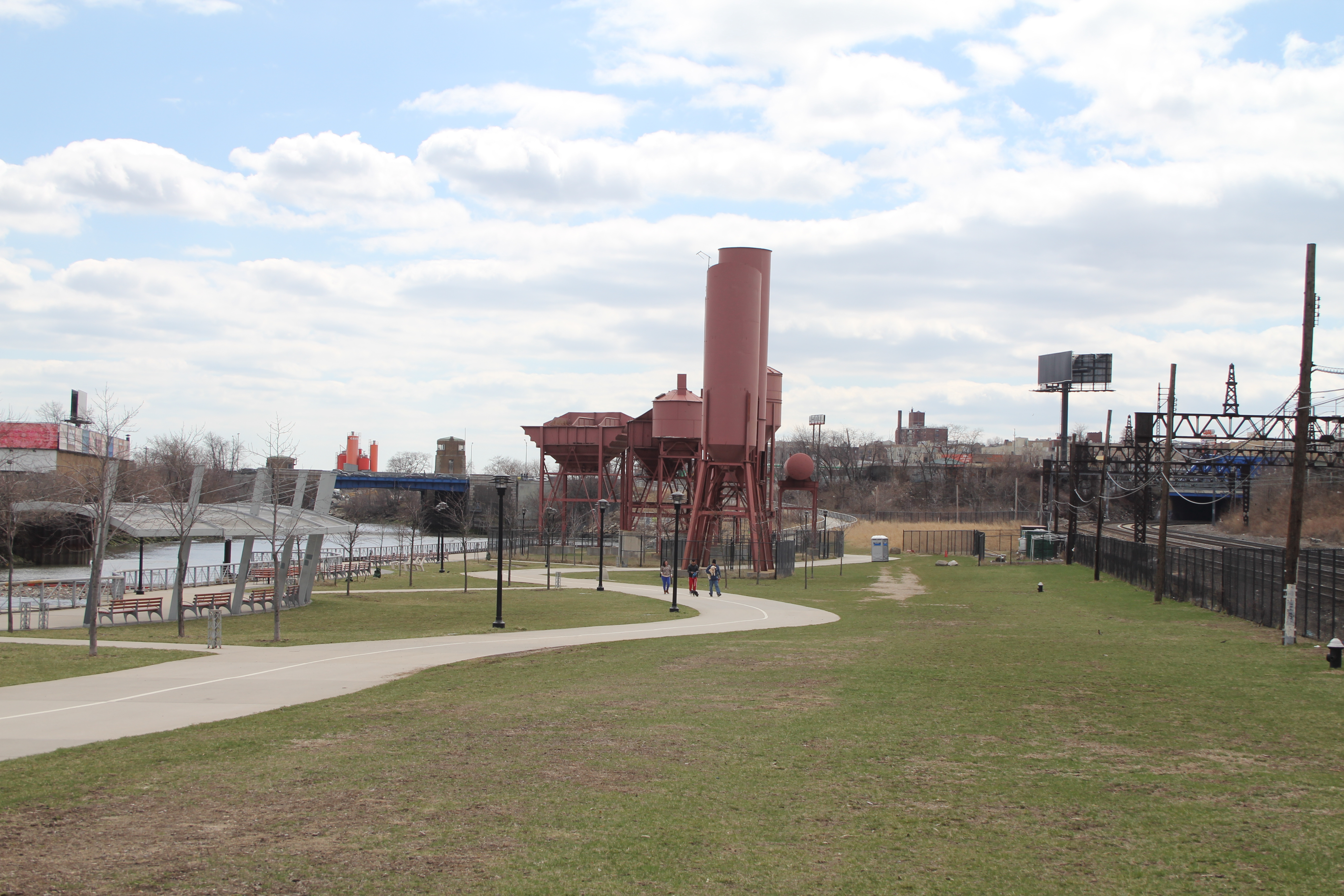 View of Concrete Plant Park, looking south and showing the river-side path and preserved concrete manufacturing structures. Park opened in 2009 along the Bronx River on the site of a former concrete plant.